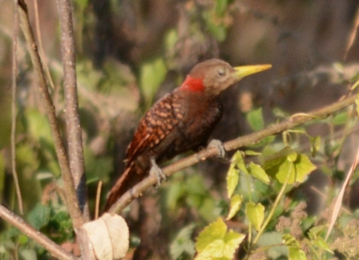 Bay Woodpecker Blythipicus pyrrhotis Mizoram